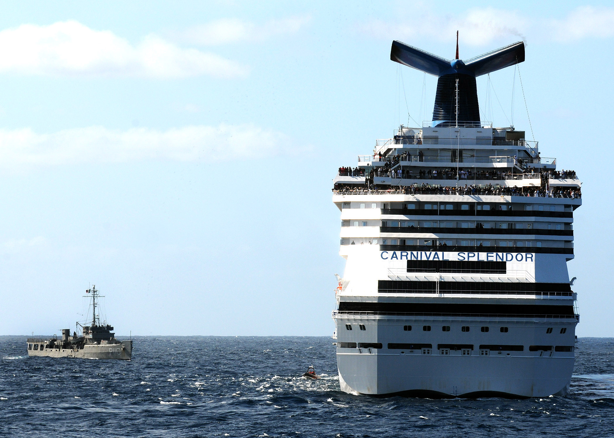 101109-N-1004S-148 PACIFIC OCEAN (Nov. 9, 2010) The Mexican navy vessel ARM Valentín Gómez Farías (P110) holds position off the port bow of the Carnival cruise ship C/V Splendor while passengers aboard the cruise ship line the ship's weather decks. The aircraft carrier Ronald Reagan (CVN 76) was diverted from its training maneuvers at the direction of Commander, U.S. Third Fleet, and at the request of the U.S. Coast Guard, to a position near the Carnival cruise ship C/V Splendor. Ronald Reagan is facilitating the delivery of 4,500 pounds of supplies to CV Splendor after the cruise ship became stranded 150 nautical miles southwest of San Diego early Monday. (U.S. Navy photo by Mass Communication Specialist 3rd Class Shawn J. Stewart/Released)